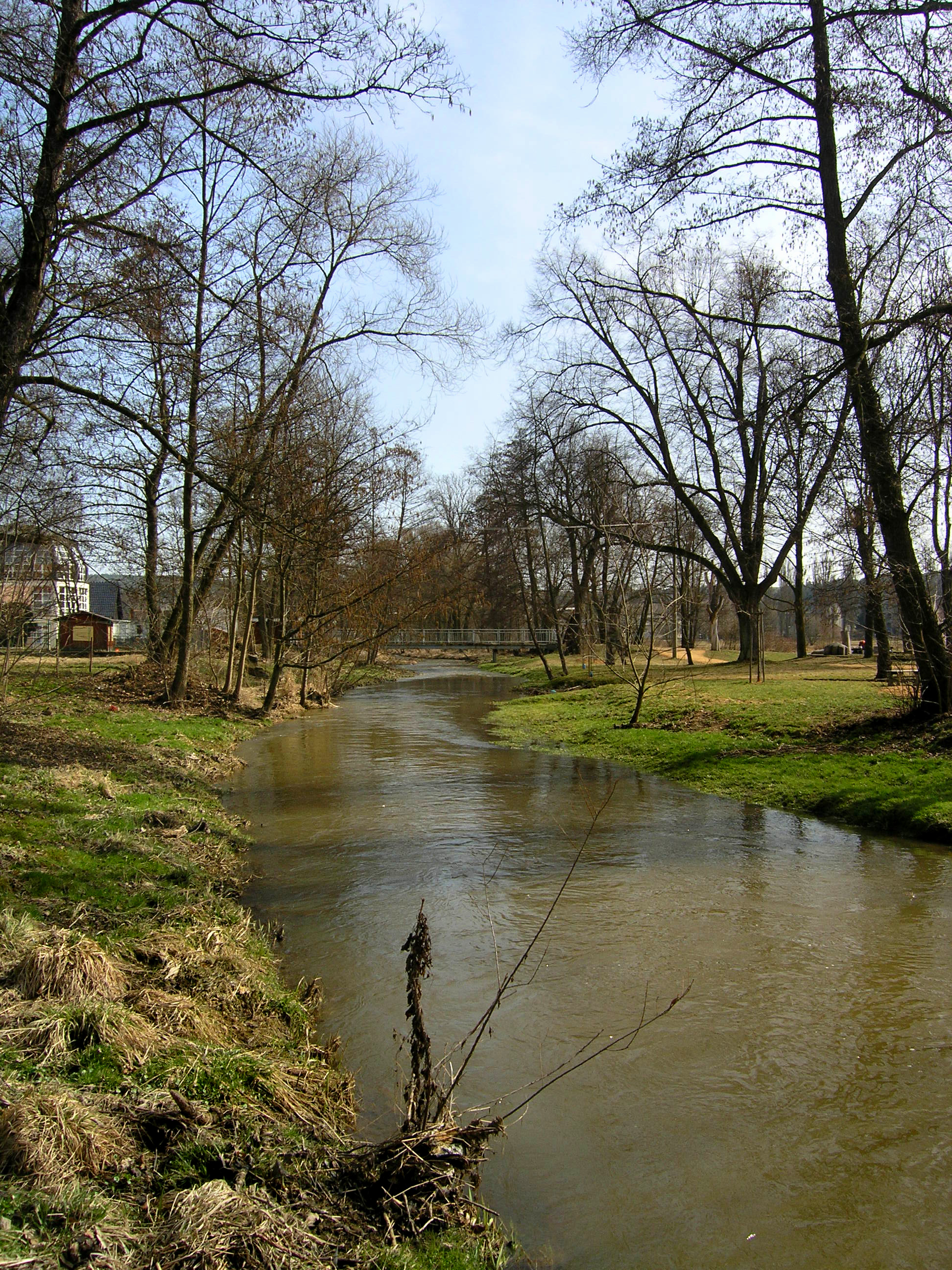 Třemošná River in Třemošná, Czech Republic